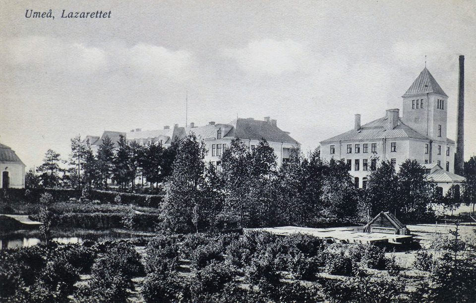 The second hospital building in Umeå, built 1907.